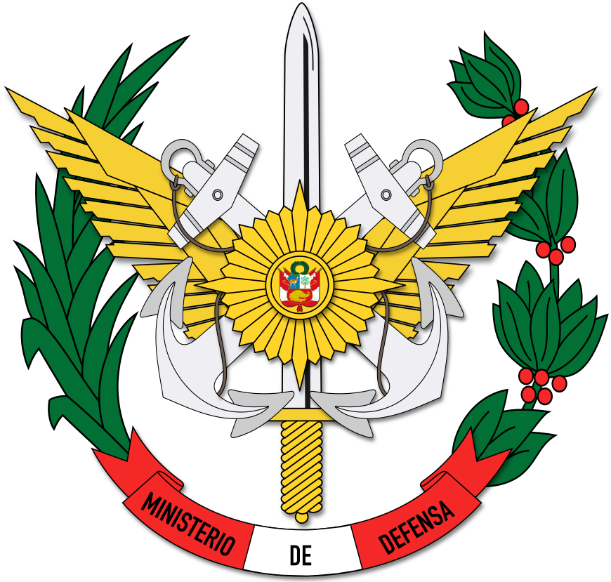 Seal of Peruvian Ministry of Defense